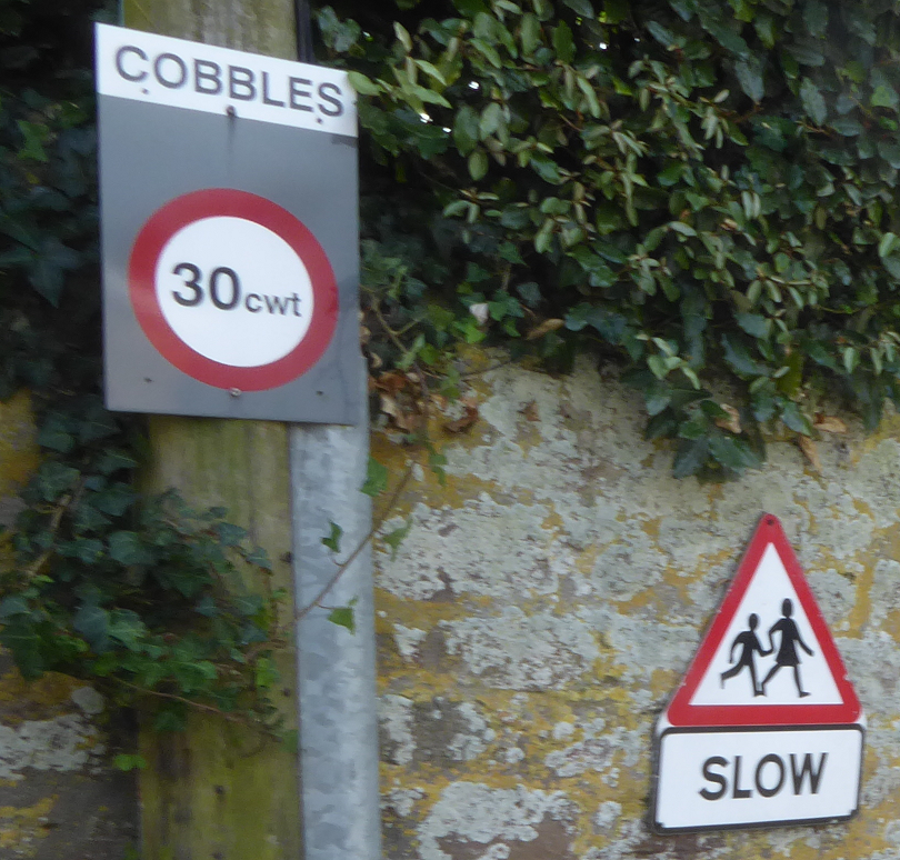 Weight restriction and children signs in St Anne, Alderney